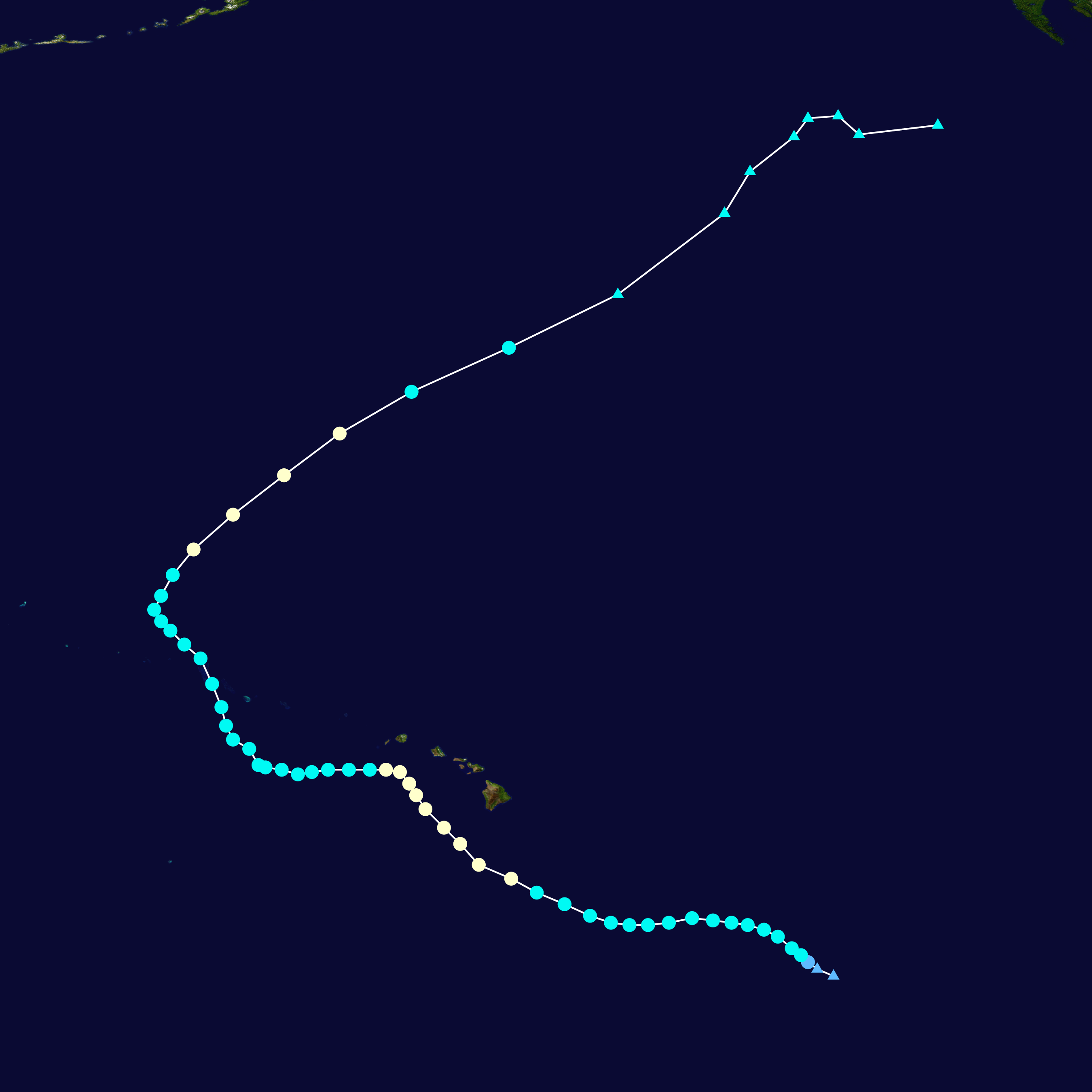 Track map of Hurricane Ana of the 2014 Pacific hurricane season. The points show the location of the storm at 6-hour intervals. The colour represents the storm's maximum sustained wind speeds as classified in the Saffir–Simpson scale (see below), and the shape of the data points represent the nature of the storm, according to the legend below. Saffir–Simpson scale Tropical depression≤38 mph≤62 km/h Category 3111–129 mph178–208 km/h Tropical storm39–73 mph63–118 km/h Category 4130–156 mph209–251 km/h Category 174–95 mph119–153 km/h Category 5≥157 mph≥252 km/h Category 296–110 mph154–177 km/h Unknown Storm type Tropical cyclone Subtropical cyclone Extratropical cyclone / Remnant low / Tropical disturbance